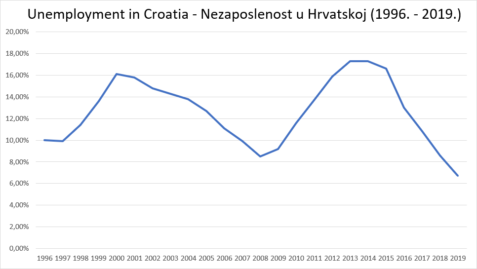 Unemployment in Croatia from 1996 - 2019, according to Eurostat and the Croatian Bureau of Statistics. Sources